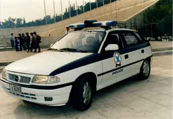 An Opel Astra F used by the Greek Police